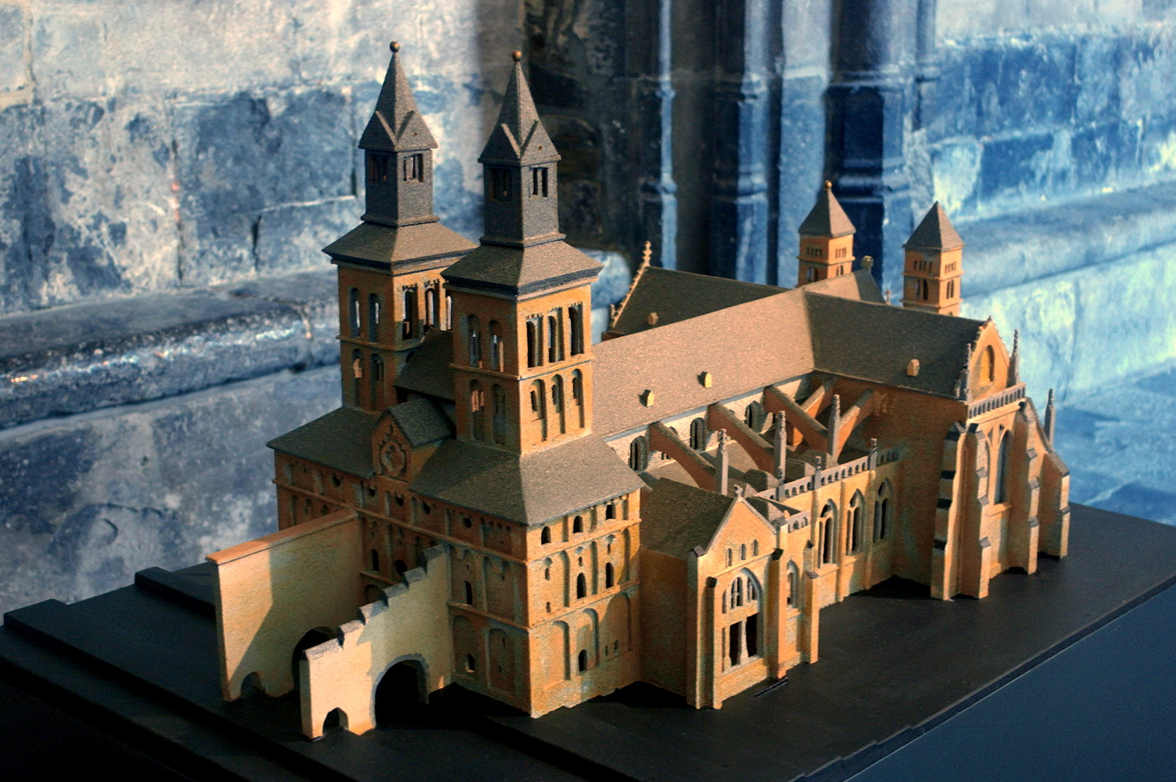 Scale model of the church in its current state in the cloisters of the Basilica of Saint Servatius in Maastricht, the Netherlands.